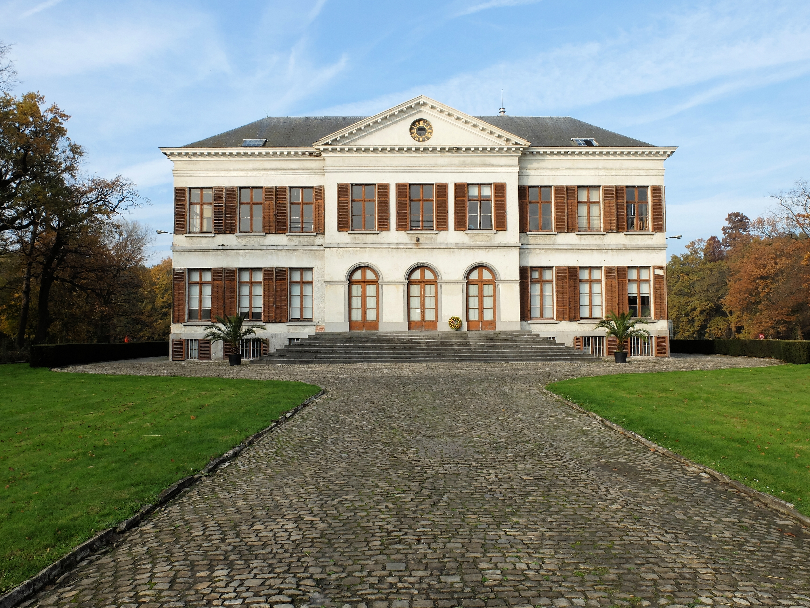 Castle Schoonselhof on domain Schoonselhof, since 1911 an Antwerp cemetry